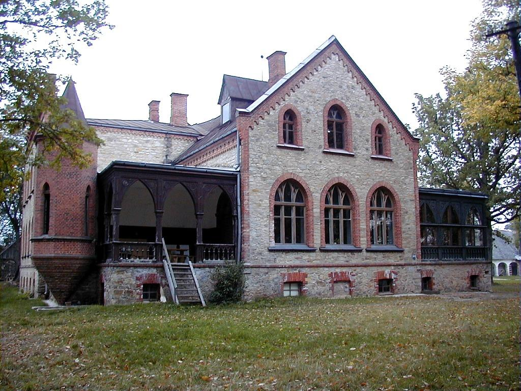 Zvārtava (Adsel-Schwarzenhof) ManorLatviešu: Zvārtavas muižas pils